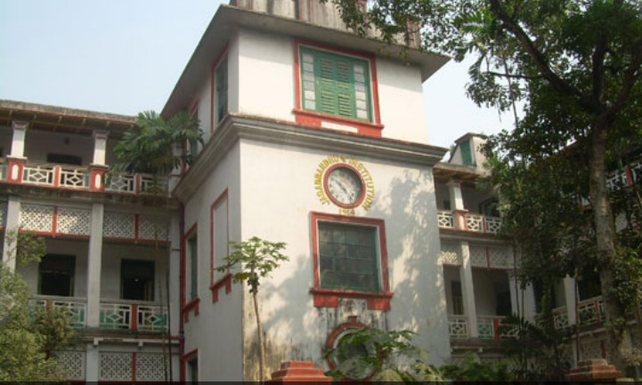 A photo of school